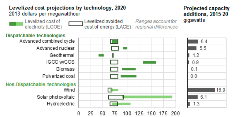 Costs shown in the illustration demonstrate various types of utility-scale systems. Prices include federal tax incentives for renewables as applicable in 2020 under current law. Capacity additions demonstrate electric power sector additions only, and as such include planned capacity already under construction. Data source?